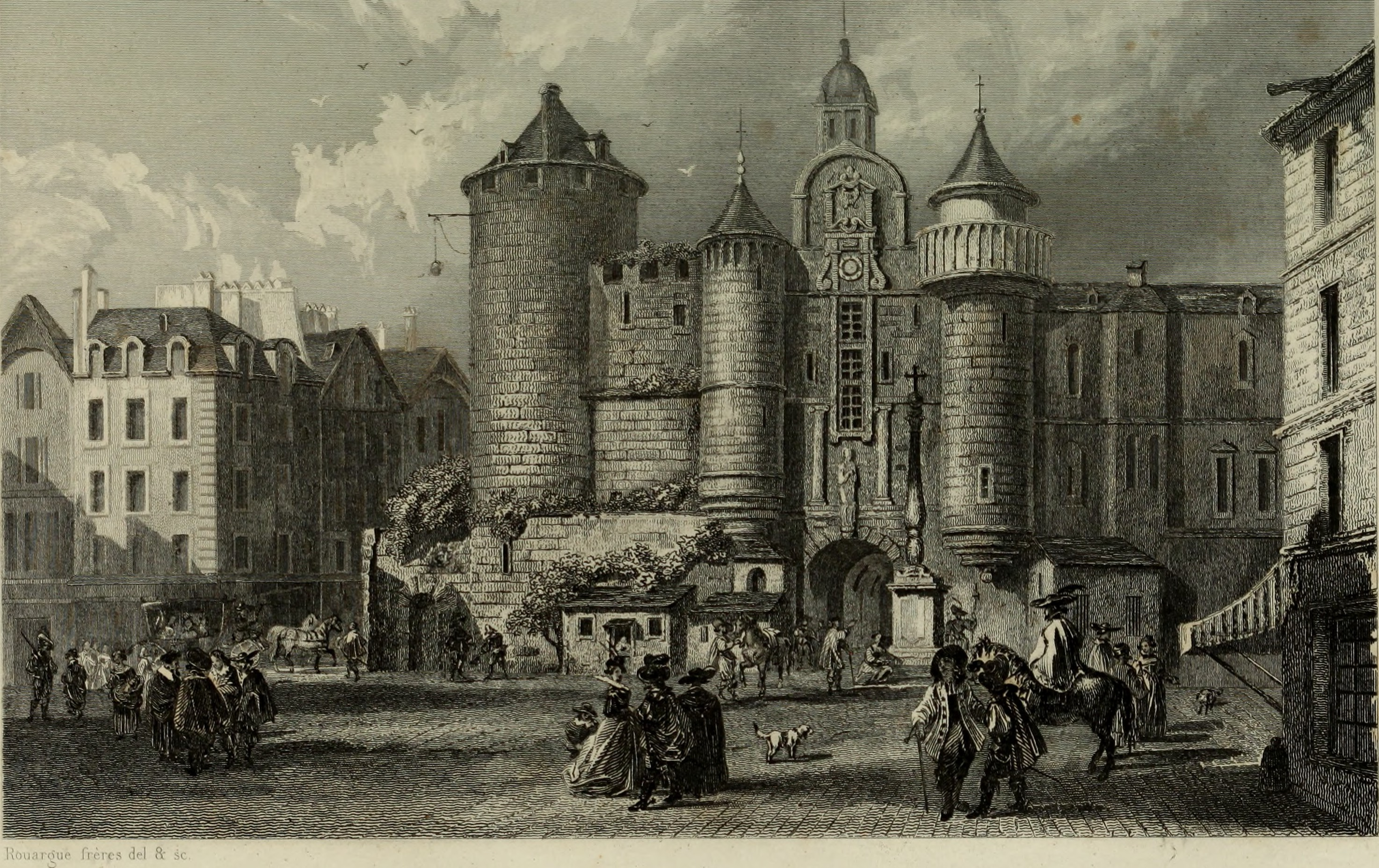 Title: Histoire des Français des diverses états Year: 1842 (1840s) Authors: Monteil, Amans Alexis, 1769-1850 Subjects: Publisher: Paris : Coquebert Text Appearing Before Image: fr3 IN f Text Appearing After Image: ,■■-,.:■.;: r r: j:n - ffi XIVe SIÈCLE. 35 leau bénite2?. Ces différentes cérémonies, quitous les jours diffèrent pour la forme et pour larécitation des prières, où lon psalmodie le vieuxrituel, cest-à-dire lhistoire des fondateurs8, etpar conséquent des vieux temps, attire le matin beau-coup de monde, surtout à Notre-Dame, où Ton vadailleurs lire la chronique des événemens histori-ques, écrite sur les tablettes attachées au ciergepascal0, ou apprendre quels sont les cycles, lesépactes, les phases lunaires0, en même tempsquon voit brûler, sur un grand tour de bois, lalongue bougie qui peut faire le tour de Paris3. On peut encore, si lon veut, aller dans la ma-tinée aux audiences du parlement, du Châtelef, duprévôt et des autres juges. On y entend souventplaider des causes intéressantes. Les gens du beauinonde vont de préférence aux audiences des coursecclésiastiques, où lon plaide presque toujoursdes causes de rapt, de viol, de séduction, de bi-gami